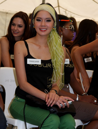 Miss Thailand Ummarapas Jullakasian during Miss World 08